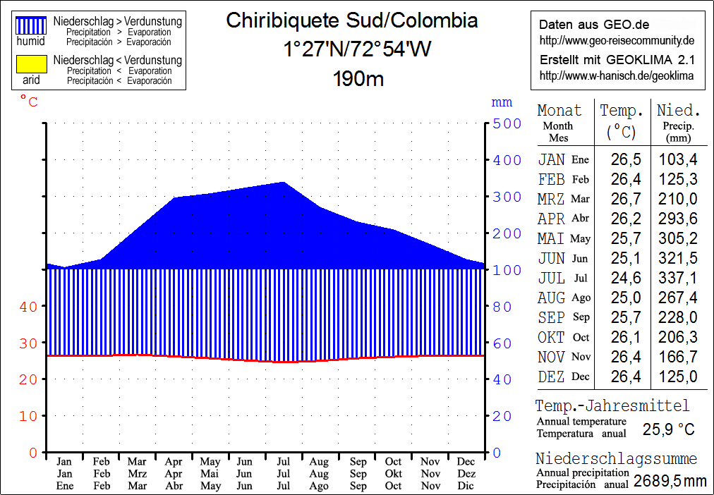 Climate chart in the Walter and Lieth format, metric, °Celsius und millimeters, made with Geoklima 2.1